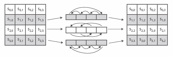 Мөр шилжүүлэх